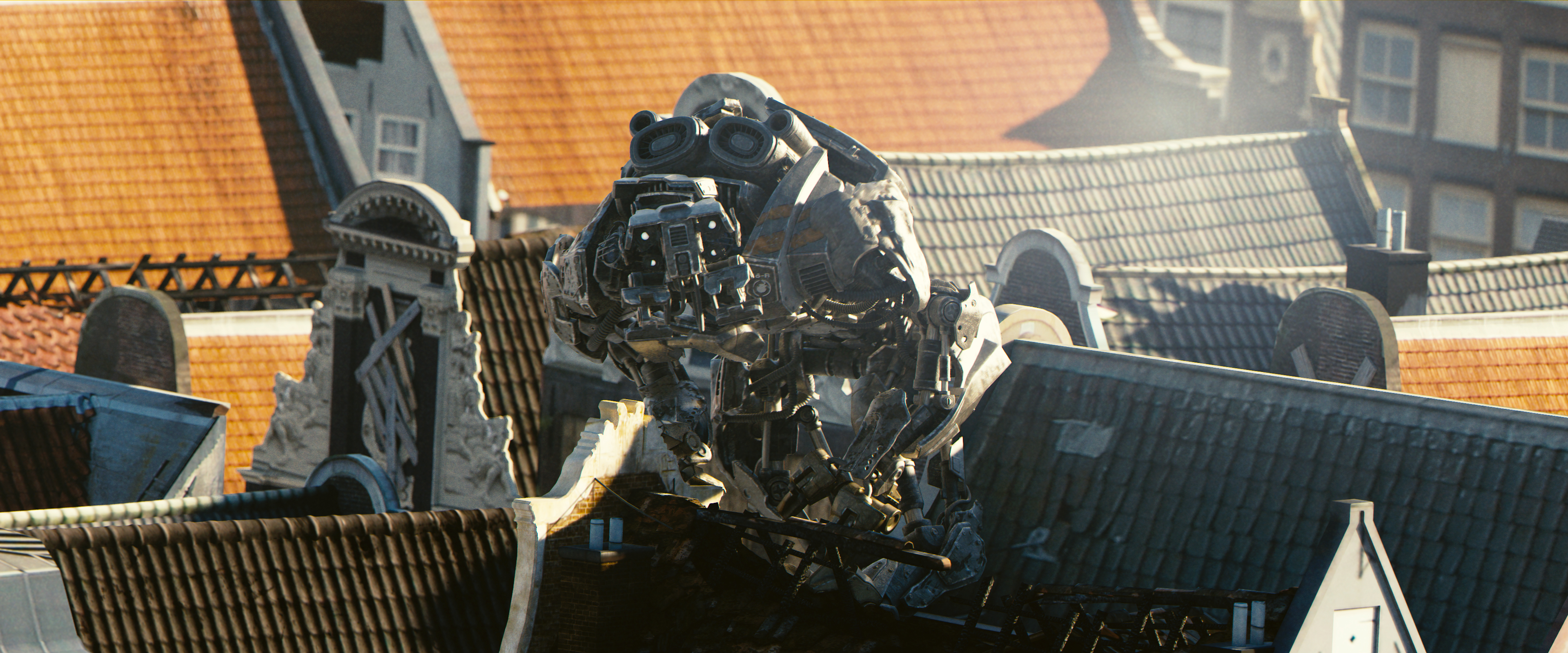 A giant robot attacks Amsterdam in the short film "Tears of Steel".